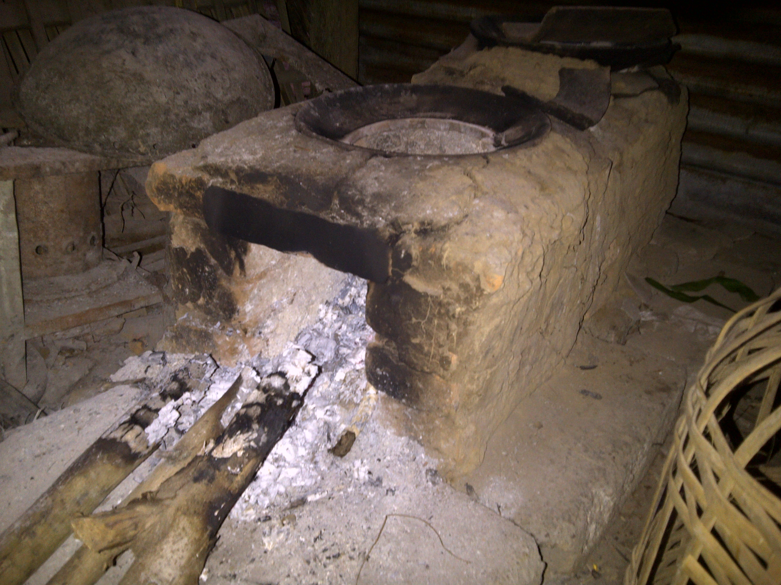 Indonesian traditional brick cooking stove which is still used in some rural area